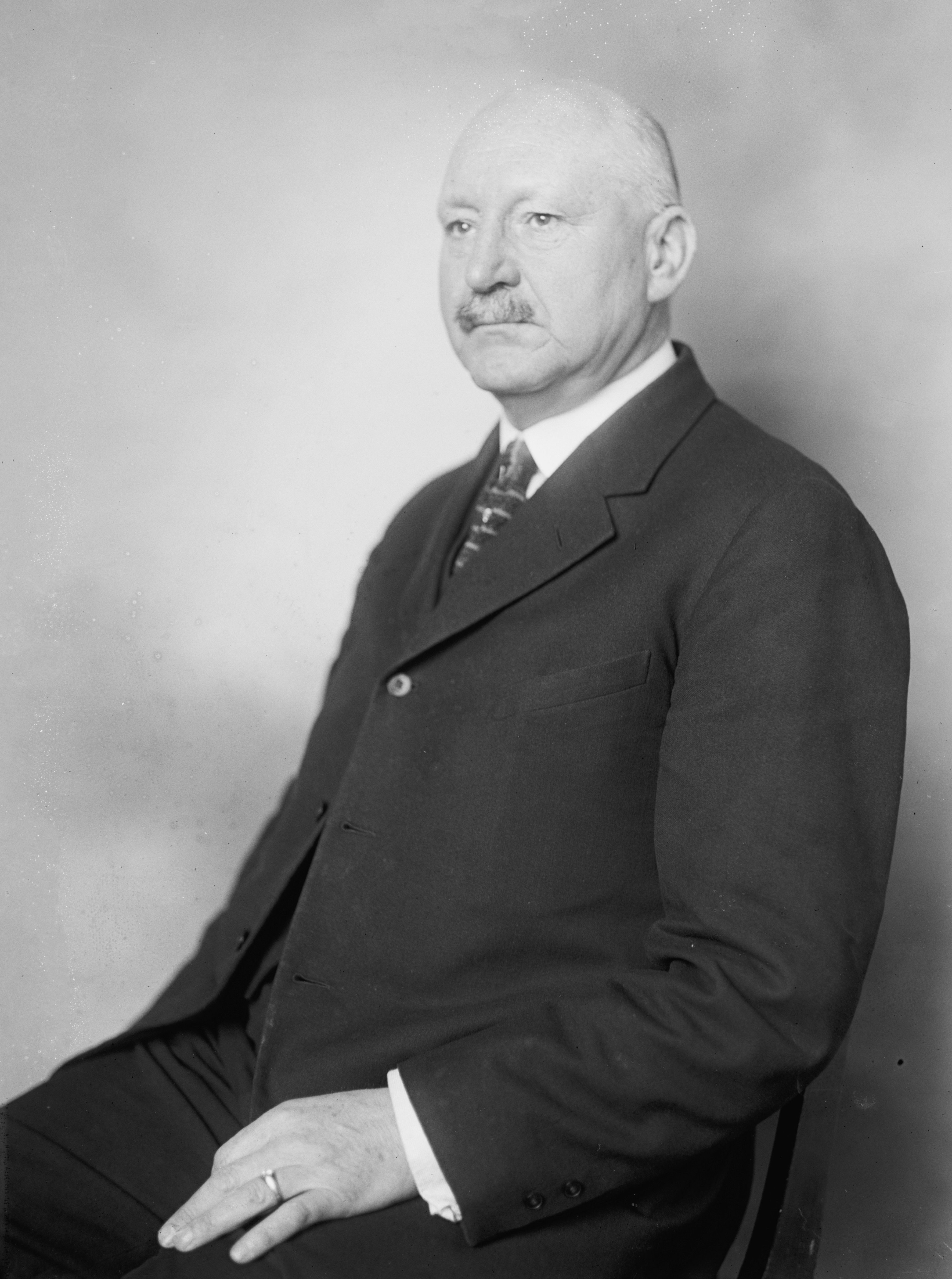 Ambrose E. B. Stephens, congressman from Ohio.